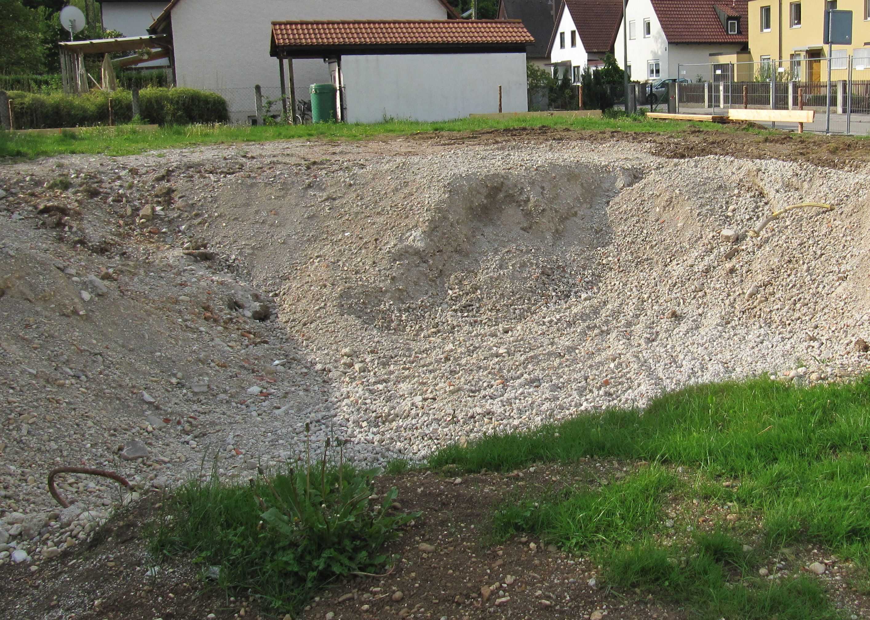 Munich-Aubing: Building pit at the corner of Altenburgstraße and Hoheneckstraße.